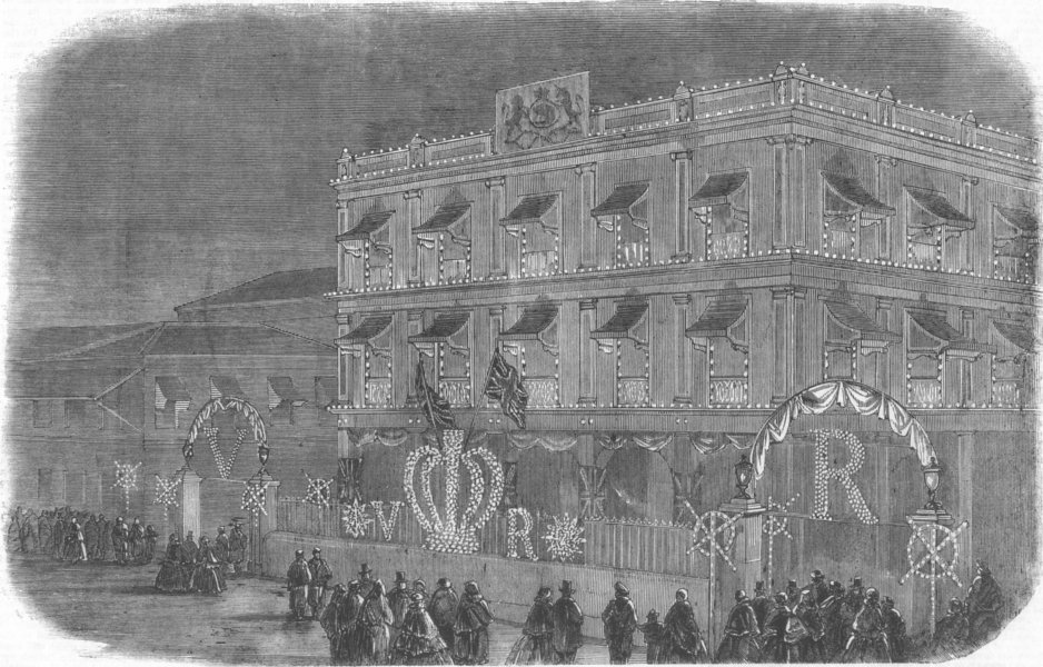 Residence of Sir Jamsetjee Jejeebhoy, 1st Baronet.